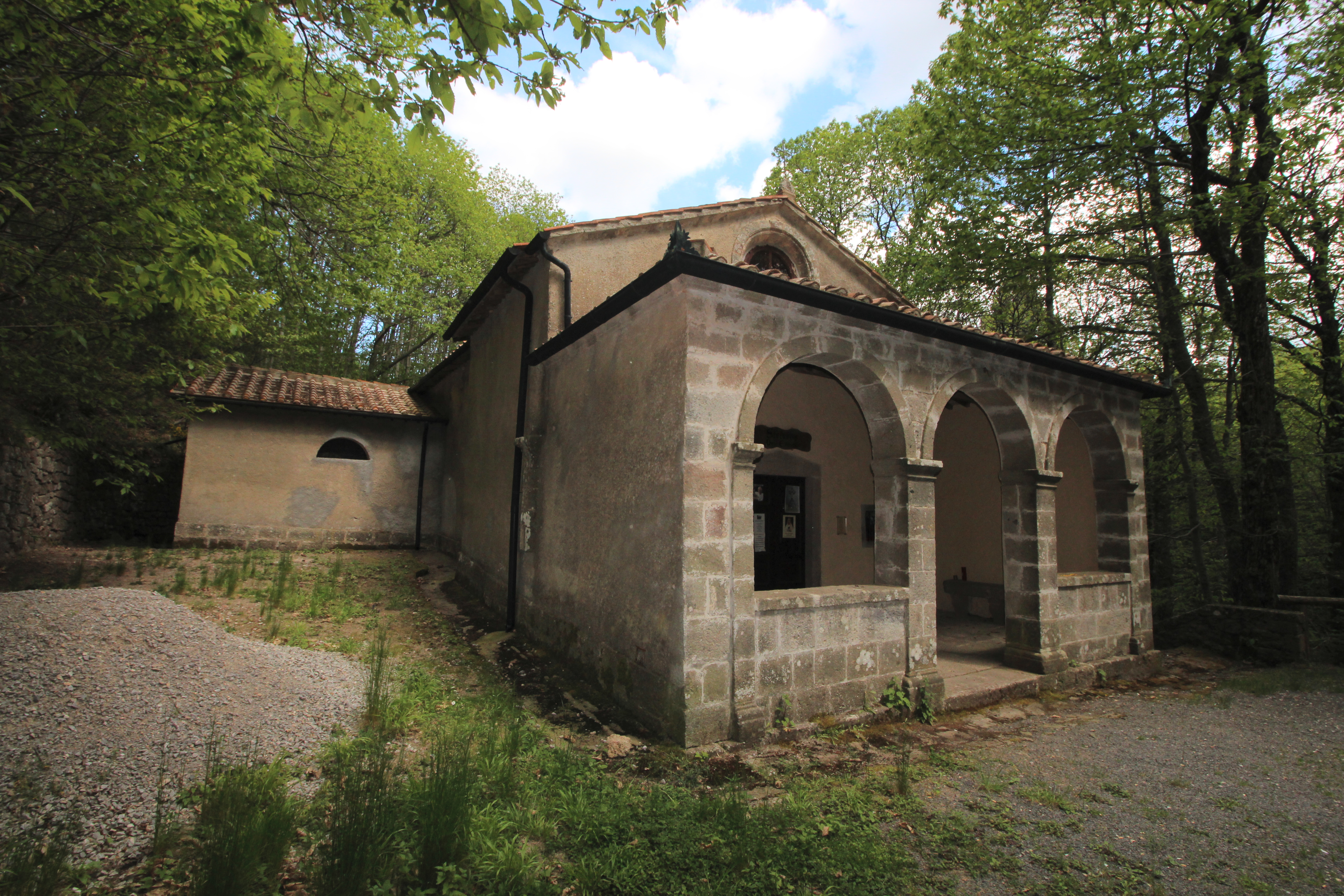 Church Santa Maria dell'Ermeta, Abbadia San Salvatore, Province of Siena, Tuscany, Italy